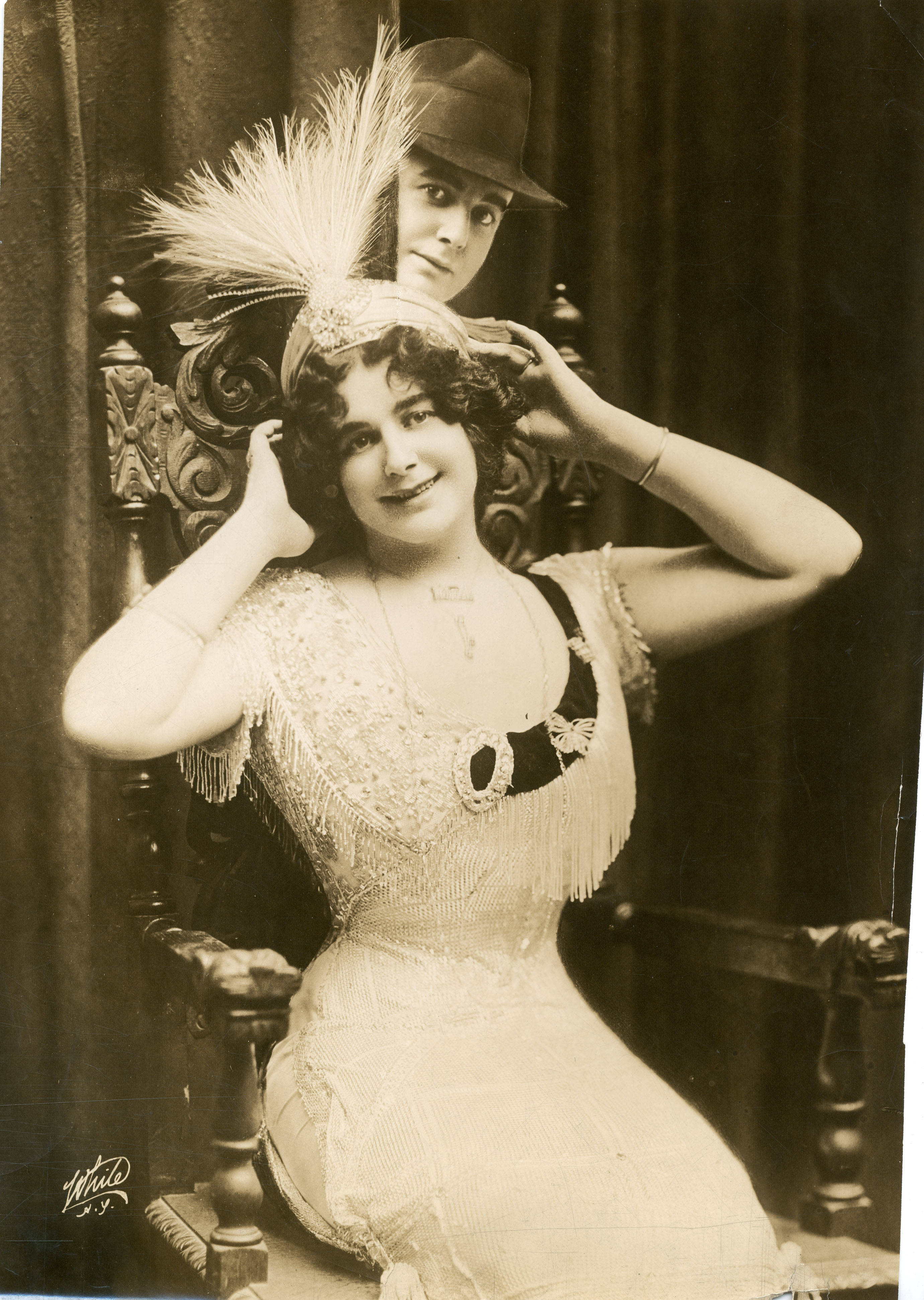 Julian Eltinge Subjects: actors